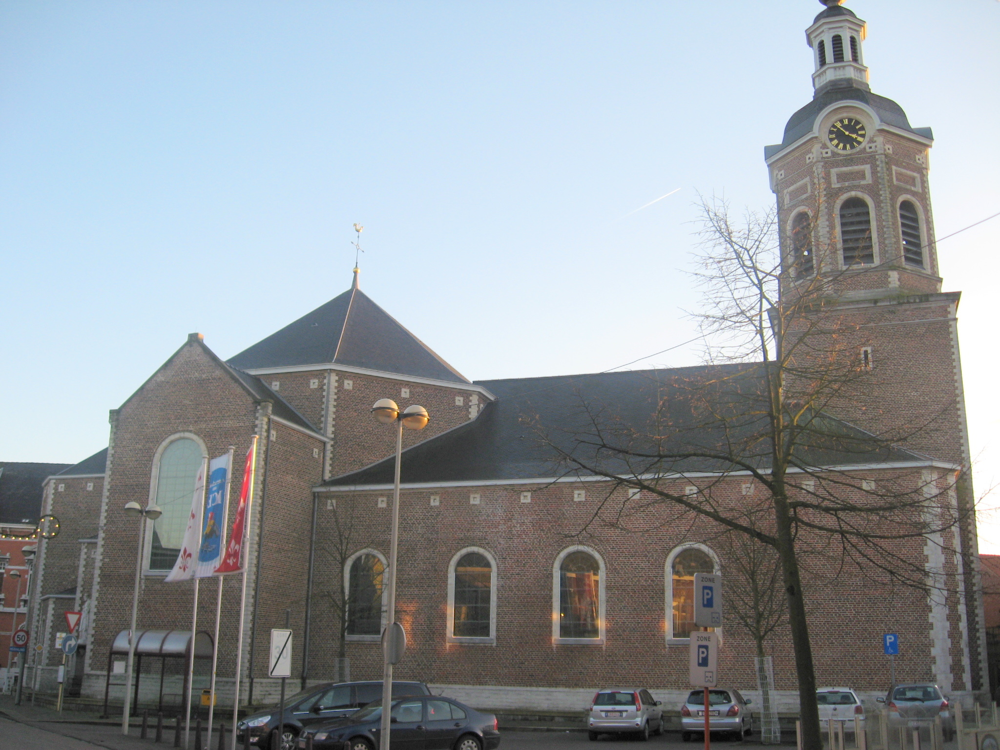 Church of Saint Nicolas in Rillaar, Aarschot, Flemish Brabant, Belgium